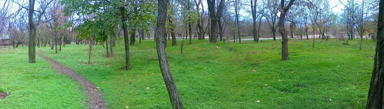 Ukraine Kherson Komsomolsky Park nature